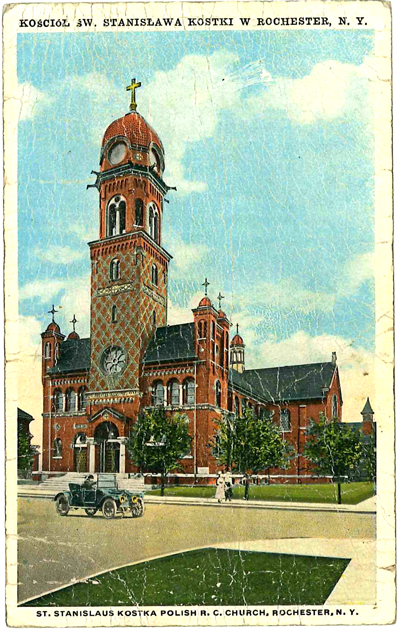 Saint Stanislaus Kostca Church, Rochester NY in 1915.